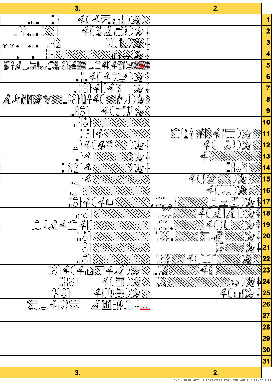 Drawing of the Turin King List (Turin Royal Canon)